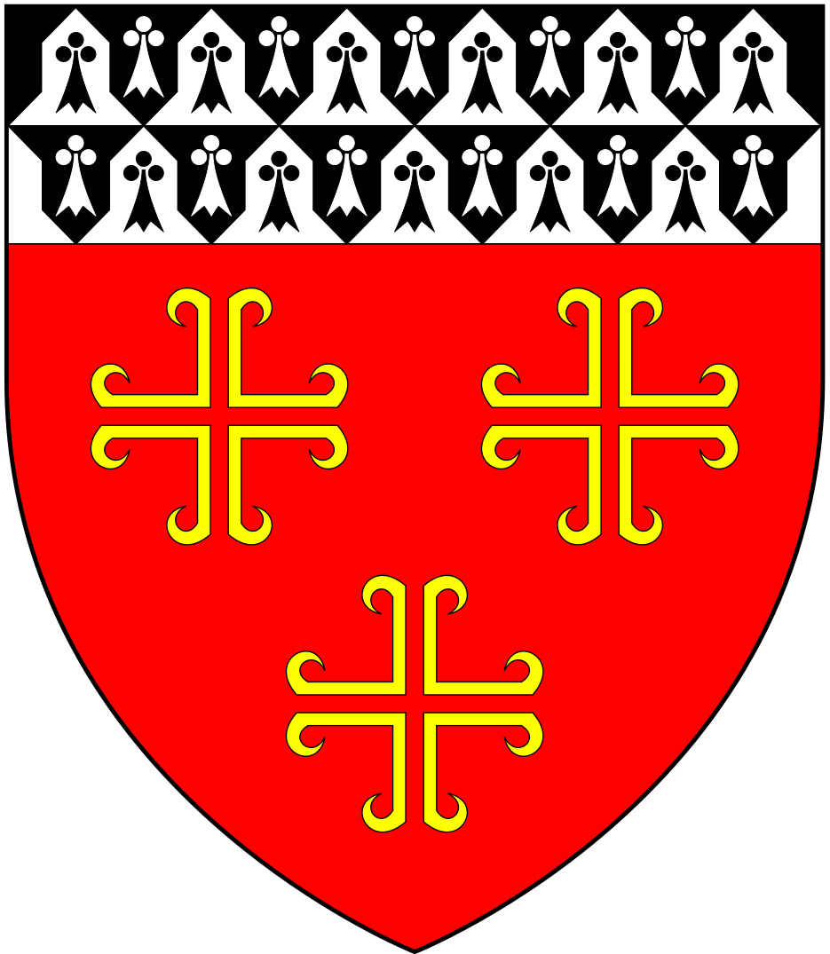 Arms of Verney of Compton Verney, Warwickshire: Gules, three crosses recerclée (voided througout) or a chief vair ermine and ermines (Debrett's Peerage, 1968, p.1156). The crosses although not blazoned in this source voided are generally depicted as such on the family's bookplates, etc. Visitation of Warks, 1619, Verney arms blazoned: Argent, three crosses moline voided throughout gules a chief vairy sable and ermine, with tinctures transposed. (Fetherston, J., ed. (1877). The Visitation of the County of Warwick in the year 1619, taken by William Camden, Clarencieux King of Arms. Harleian Society, 1st ser. 12. London.,p.24, quarterings identified p.xiv[1])